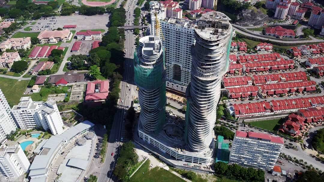 Arte S, one of the tallest skyscrapers in Penang, under construction in 2017.